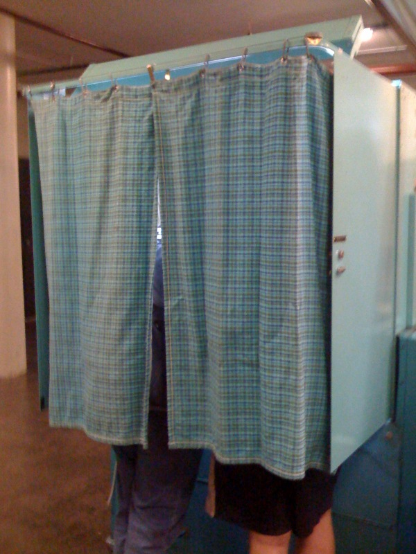 A voting booth in Buffalo, New York